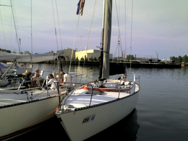 A Tartan Ten rafted to another Tartan Ten after a race.